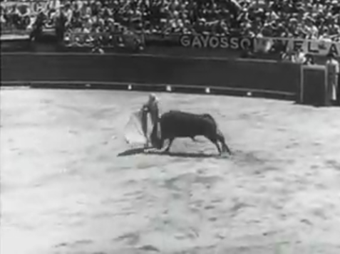 Snapshot from Bullfighter and the Lady trailer